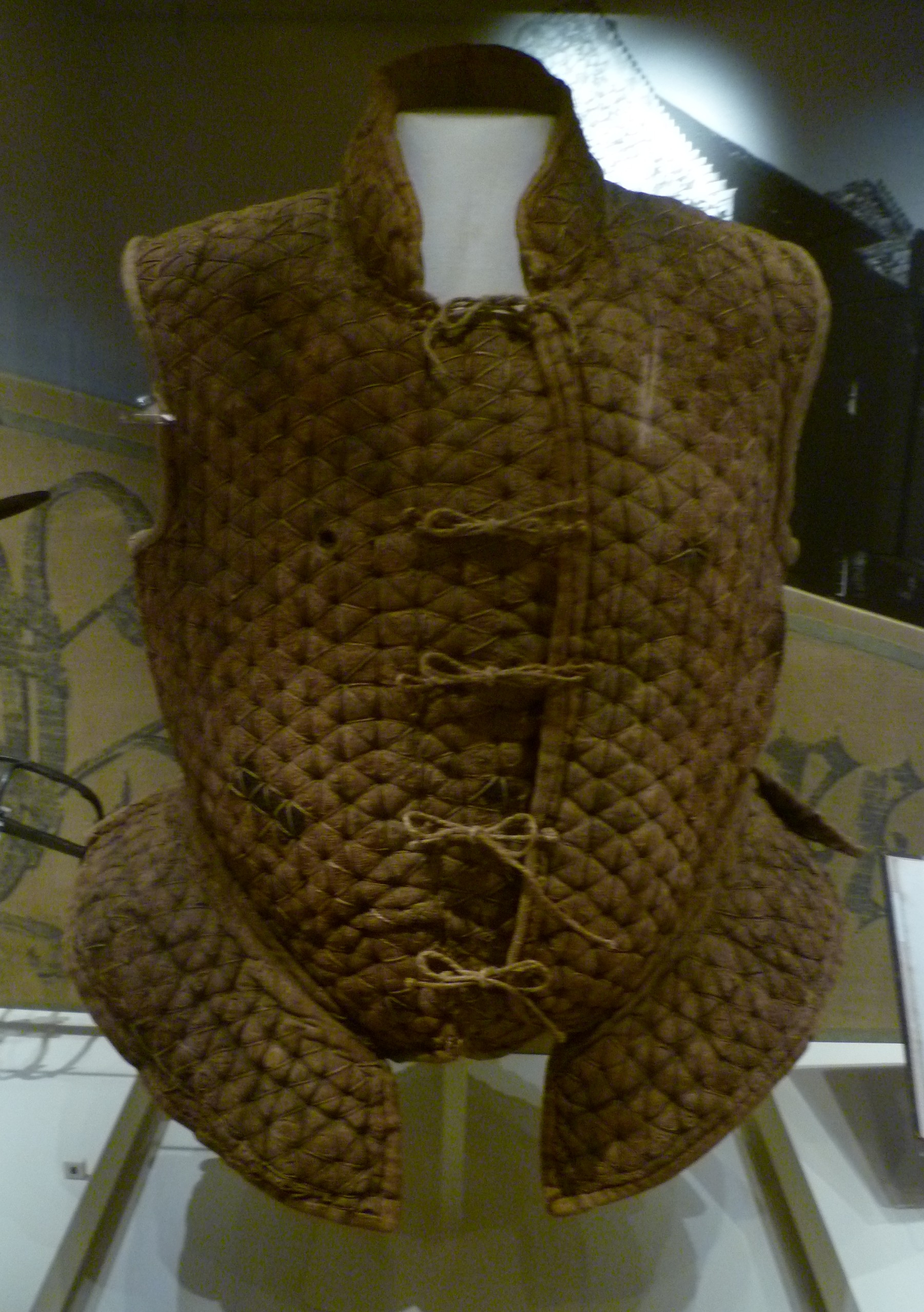 A leather jacket, reinforced for self-protection by metal plates, of the kind that would have been worn by Border Reivers in the 16th century.